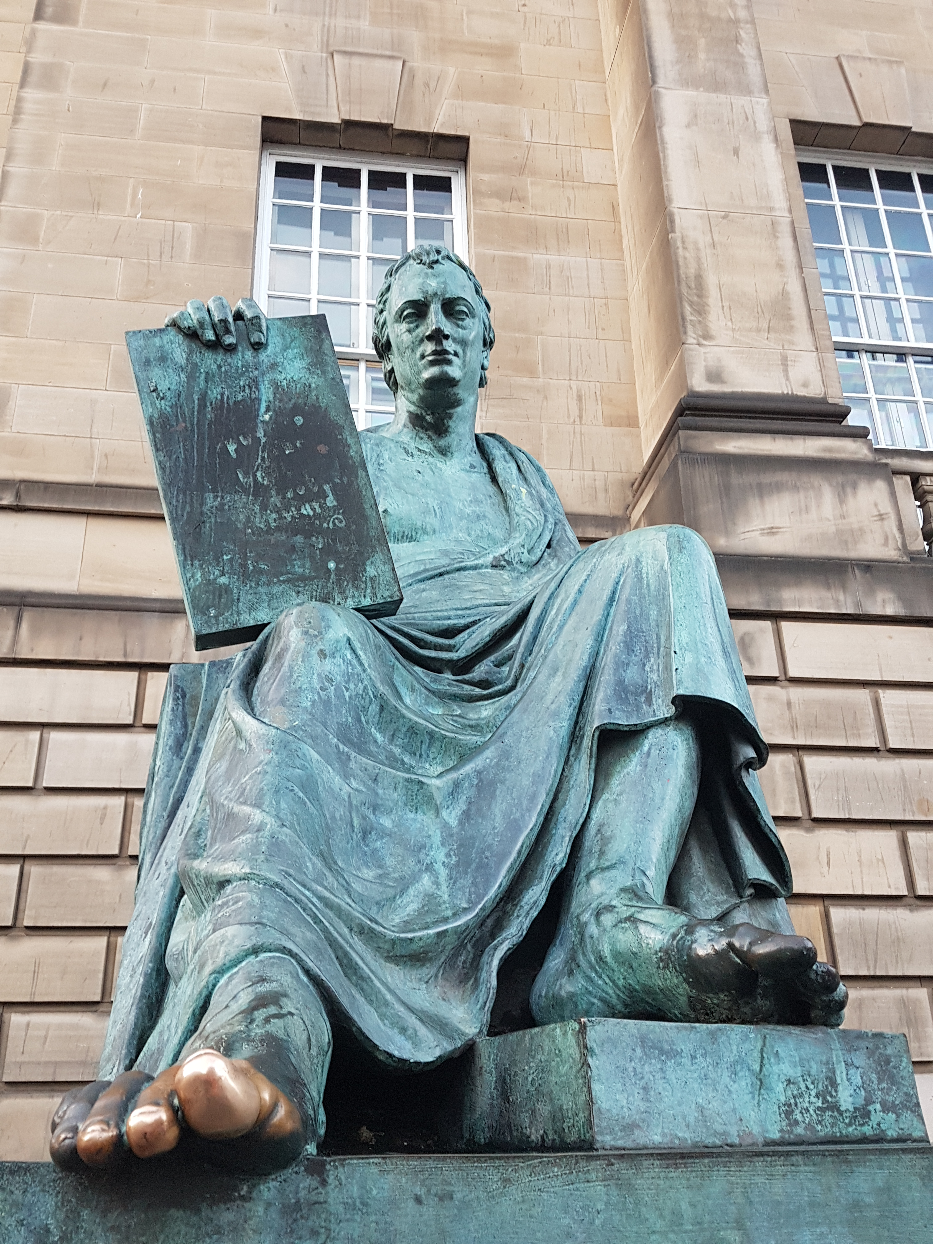 Edinburgh, High Street, Parliament Square, Well Wikidata has entry Q17791236 with data related to this item.